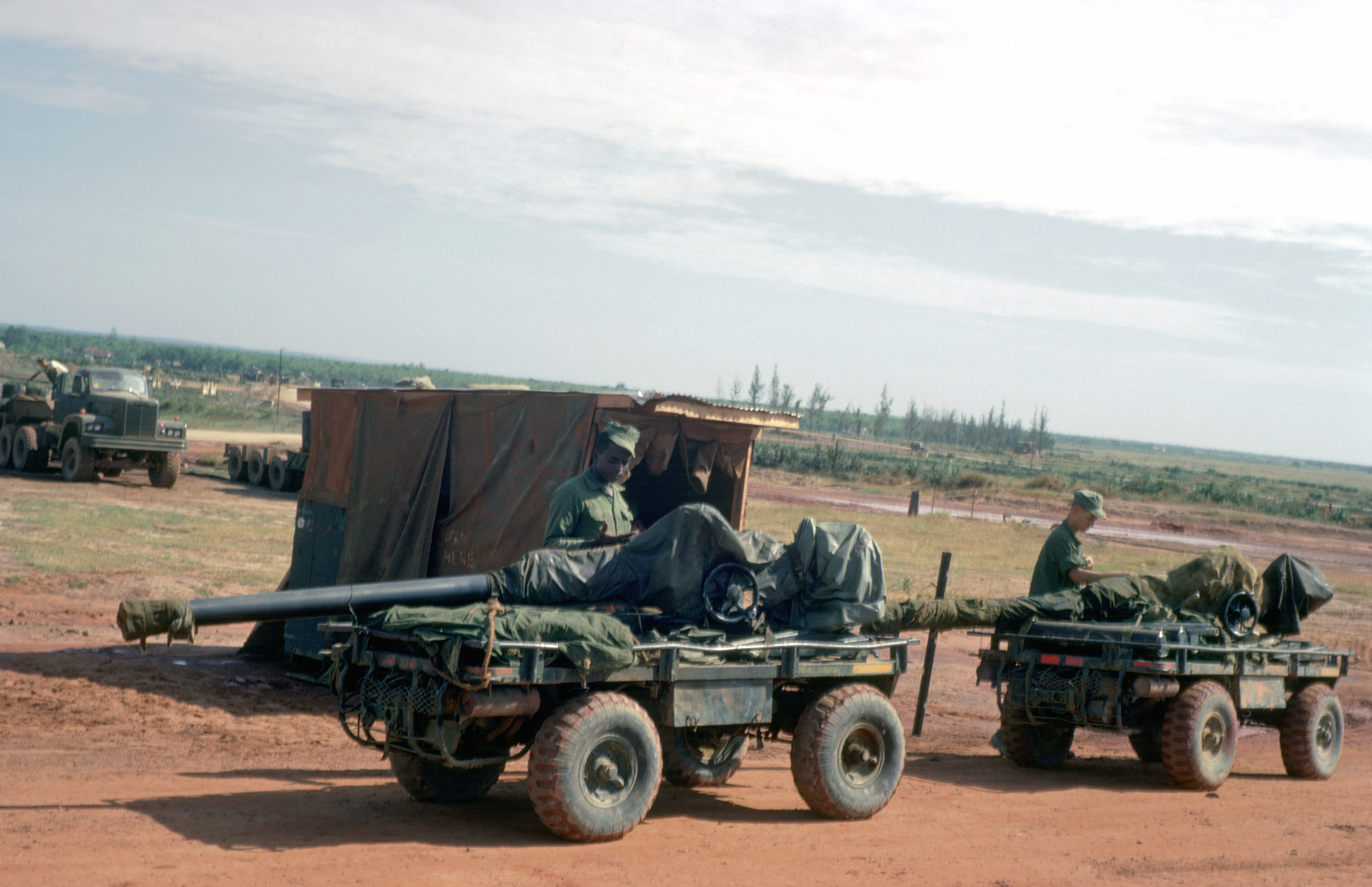 Marines secure canvas covers on M40 106 mm recoiless rifles mounted on M274 utility platform trucks. The M274 is commonly referred to as a "mechanical mule."